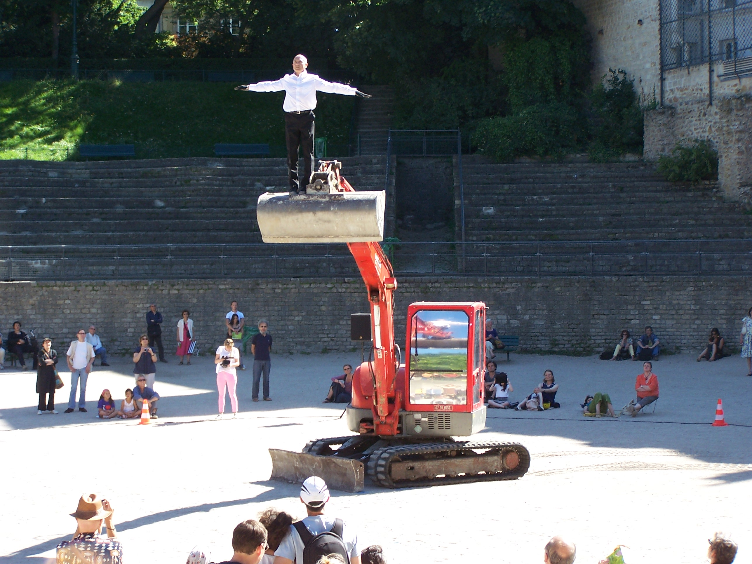 Exerpts of ballet entitled Transports exceptionnels (2006) by french choreographer Dominique Boivin danced in the Arènes de Lutèce in Paris on July 23rd, 2012.